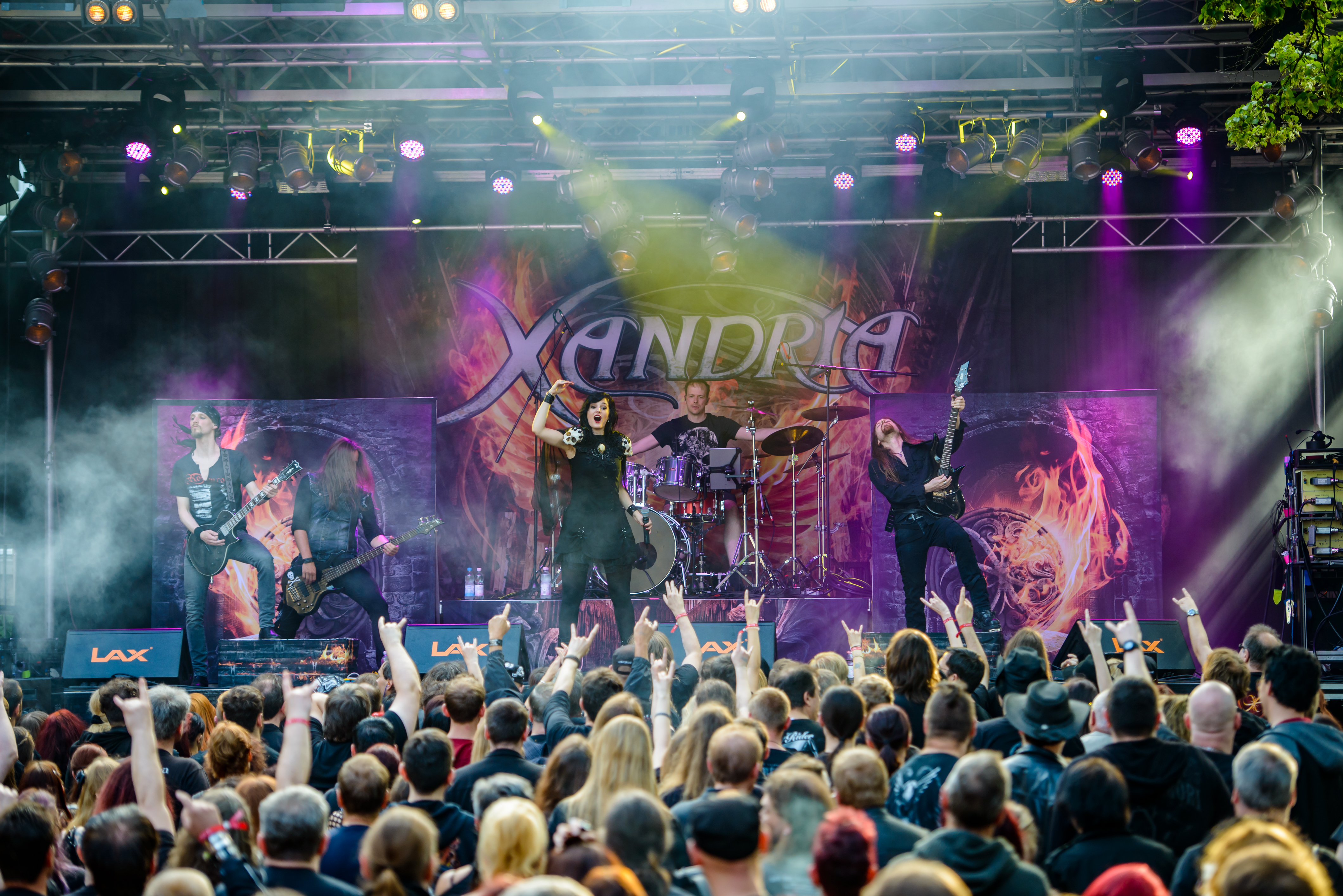 Xandria; Castle Rock Festival 2016